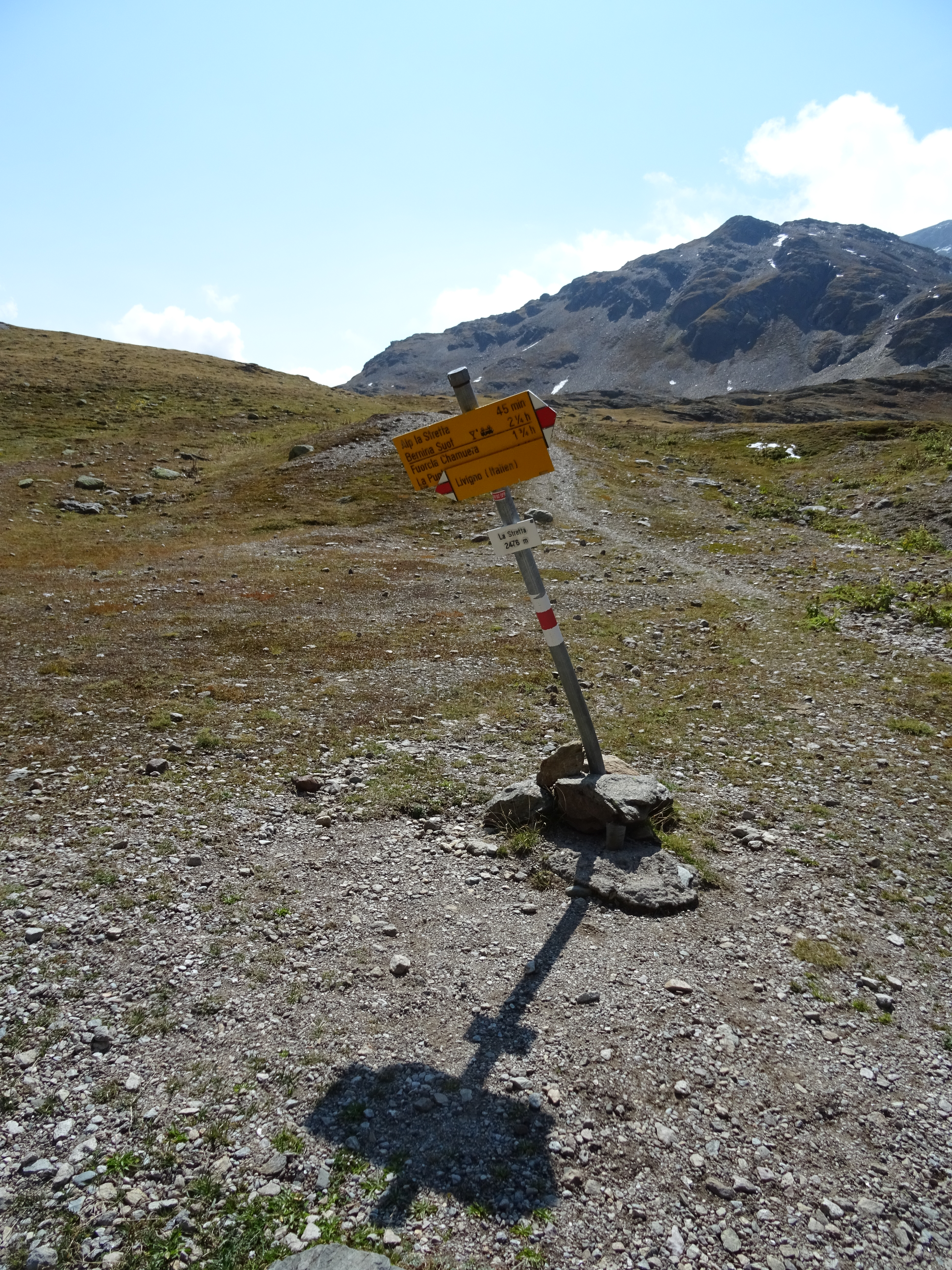 Fingerpost on La Stretta (Pontresina, Grison, Switzerland / Livigno, Sondrio, Lombardy, Italy)